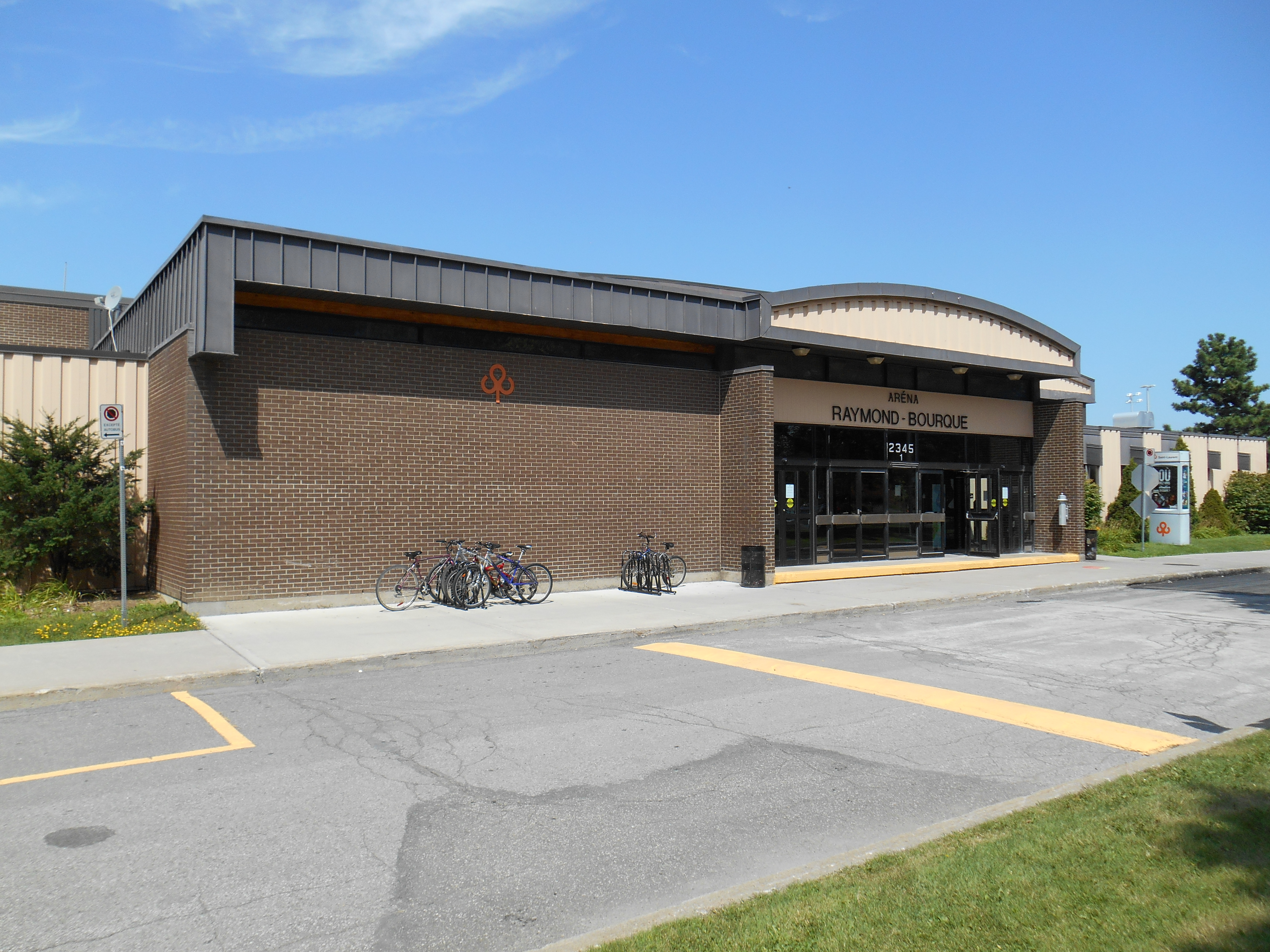 The Ray Bourque Arena is located in the borough of Saint-Laurent in Montreal, Quebec, Canada.